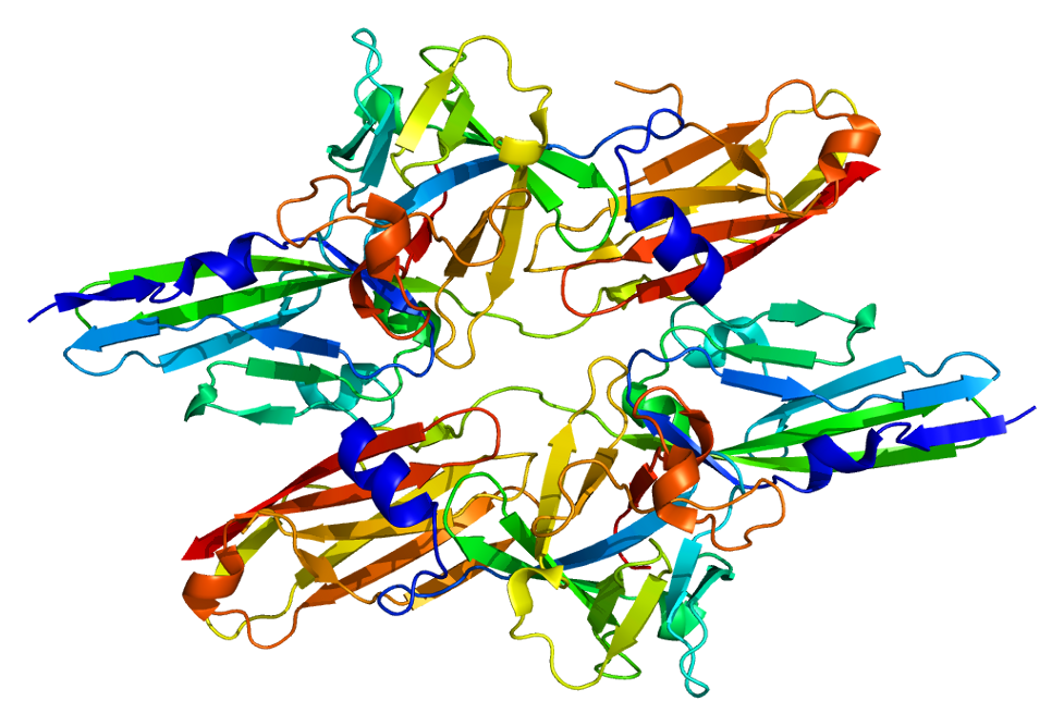 Structure of the FGF8 protein. Based on PyMOL rendering of PDB 2fdb.